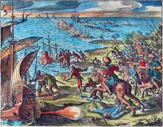 Portuguese ships battling the Turks at Goa, by Theodore de Bry, 1620 Source: ebay, Mar. 2003 "Theodore De Bry was variously a goldsmith, engraver and publisher in Frankfort on Main in Germany in the late 1500s, early 1600s. His magnum opus is the 'Collection of Voyages' or 'Grands et Petits Voyages'. In all there were 54 parts to these two works, replete with illustrations and maps highly prized by today's collectors. This page comes from 'Petits Voyages' and shows a view of a battle between the Portuguese Armada and Turkish soldiers on horseback in Goa, western India."